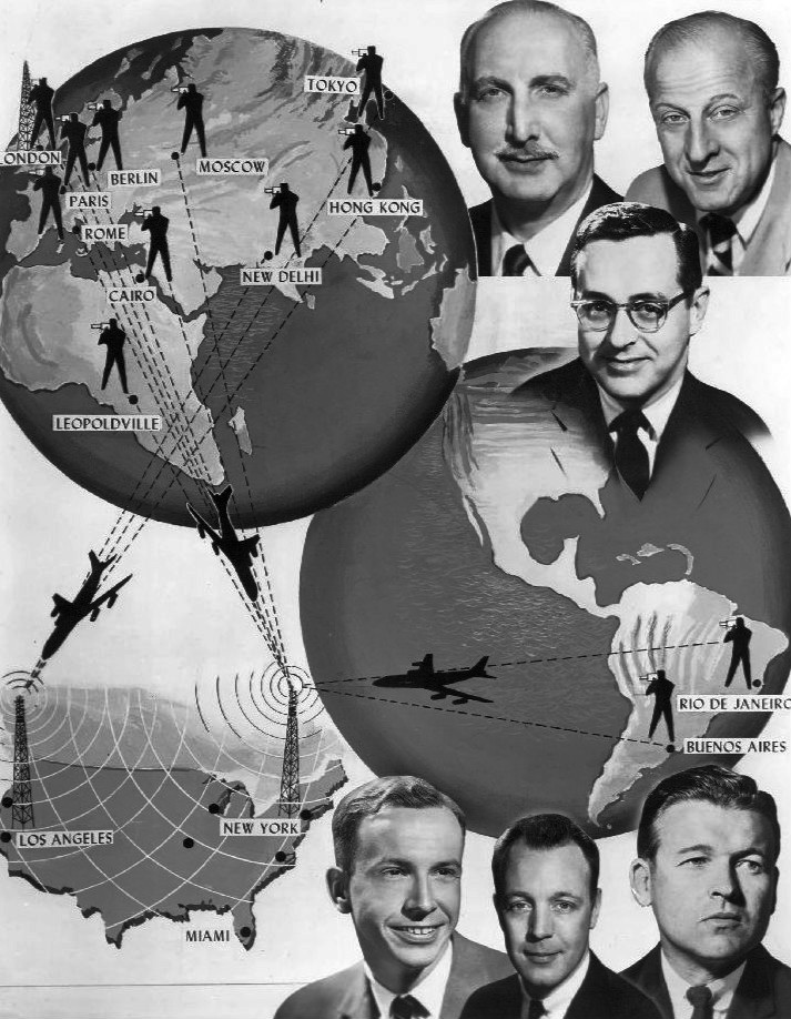 Promotional photo for NBC News. Pictured from top, left: Cecil Brown, John Chancellor, Joseph C. Harsch. Bottom from left: Welles Hangen, Wilson Hall, James Robinson. At the time, film was sent to the US by jet or via the NBC-BBC transatlantic cable system for film transmission.